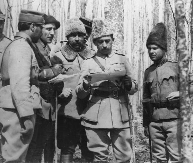 Colonel Petin on the Romanian Front.